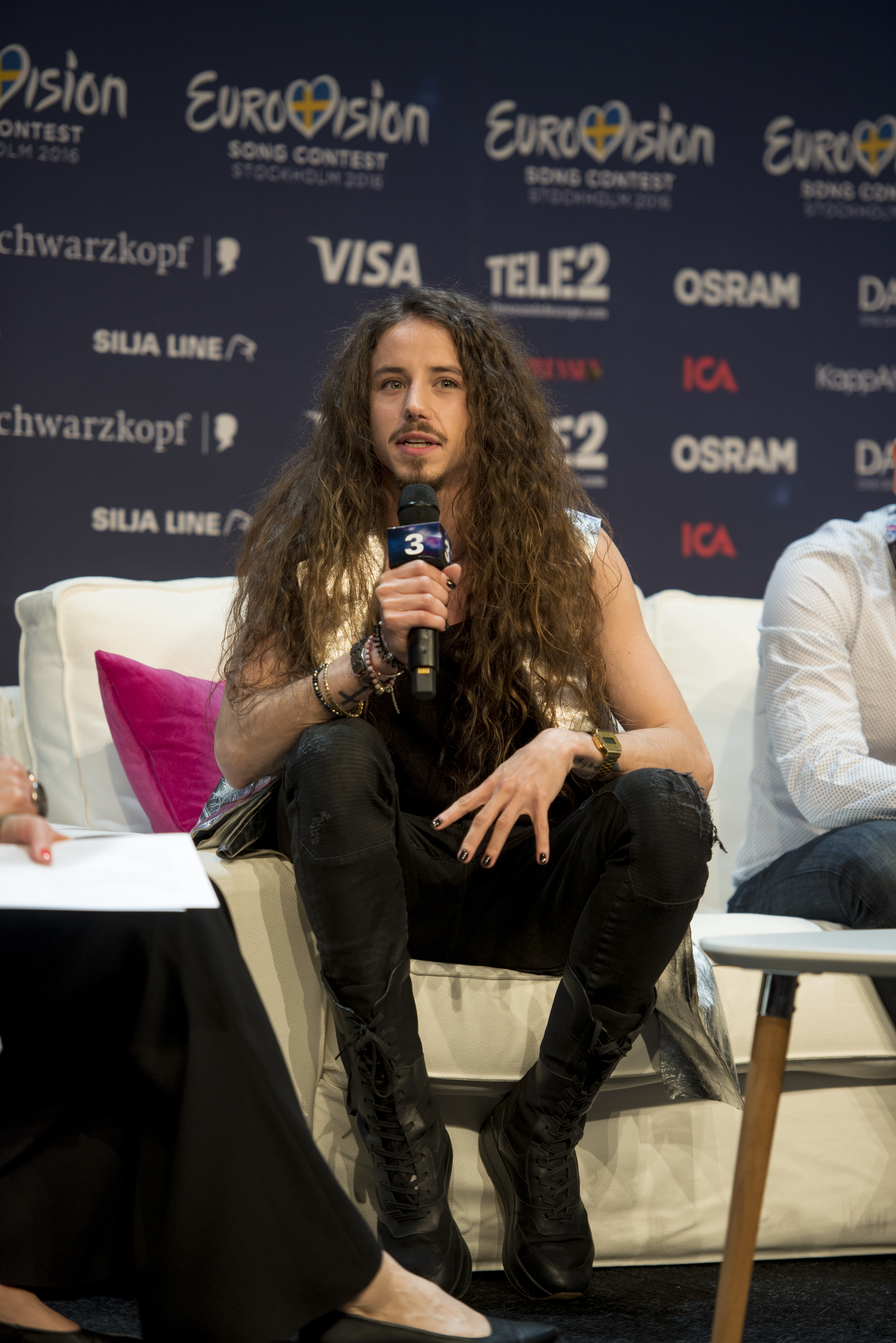 Michał Szpak at a Meet & Greet during the Eurovision Song Contest 2016 in Stockholm. (Help translate this text)